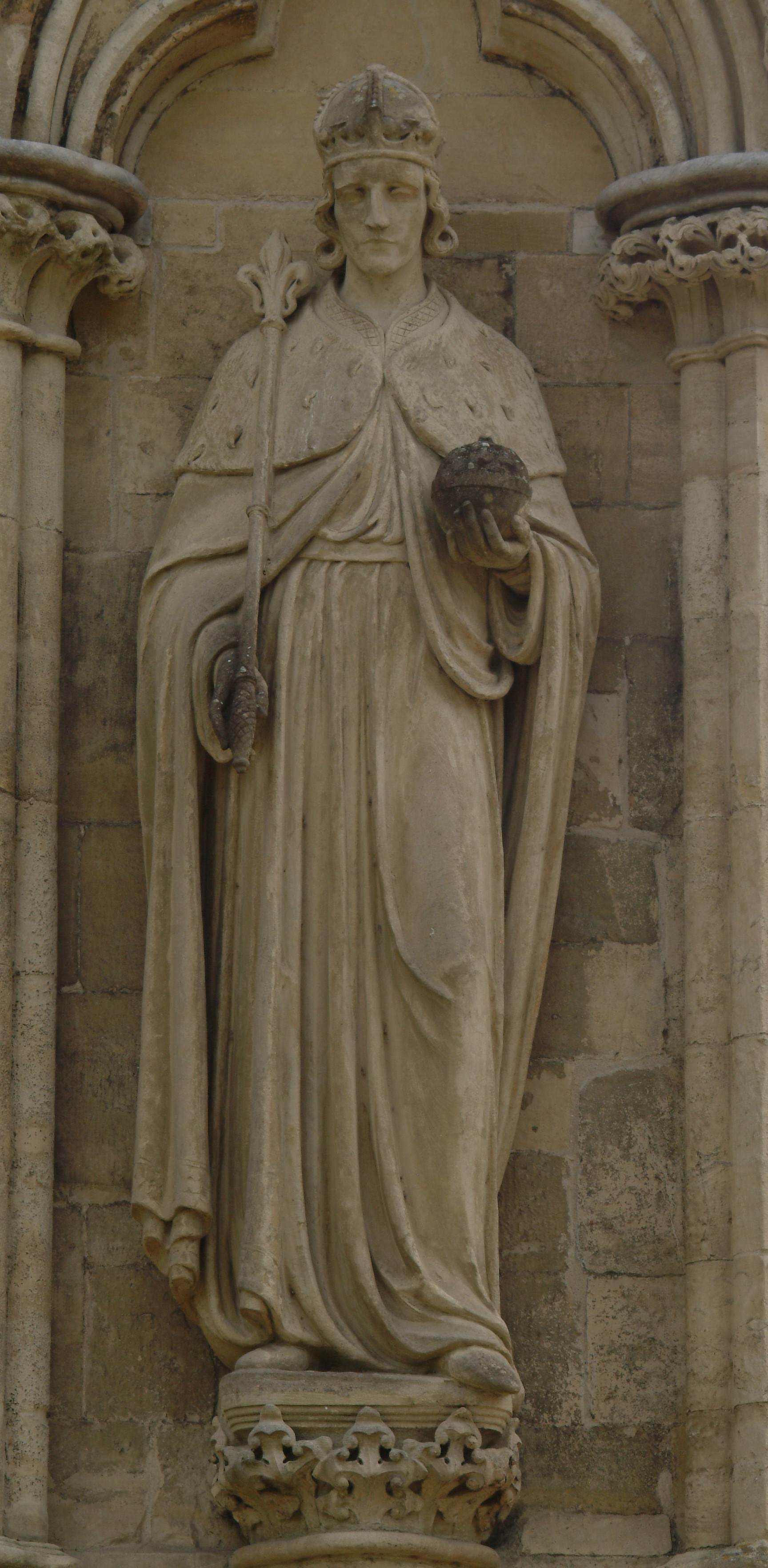 Statue of King Henry VI on the West Front of Salisbury Cathedral, UK.